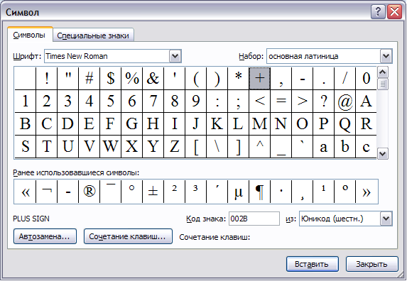 Code page of Times New Roman Снимок части кодовой таблицы шрифта Times New Roman